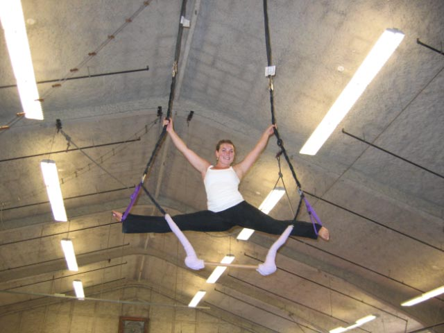 This is me on the trapeze during practice with my coach.